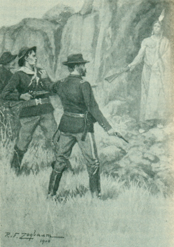 "An artistic (and erroneous) rendition of the surrender of American Horse at Slim Buttes."